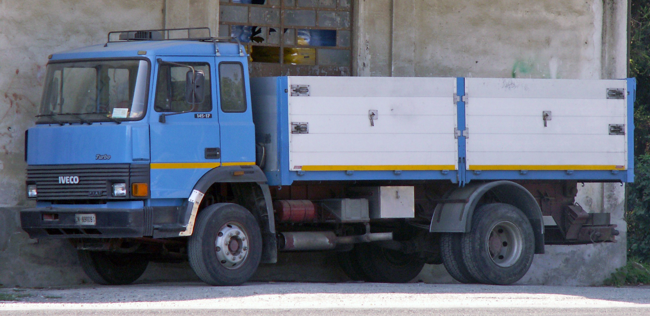 An M-series Iveco 145-17 Turbo truck (quite old, about 1988) at Bubbio, Piemonte, Italy. Konica Minolta Dimage Z6. 21.8.2011